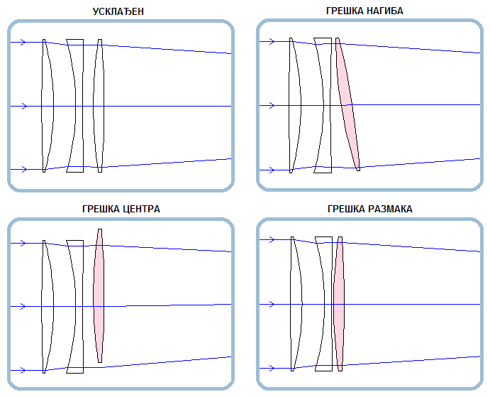 ГРЕШКЕ УСКЛАЂЕНОСТИ ЕЛЕМЕНАТА ОПТИЧКОГ СКЛОПА